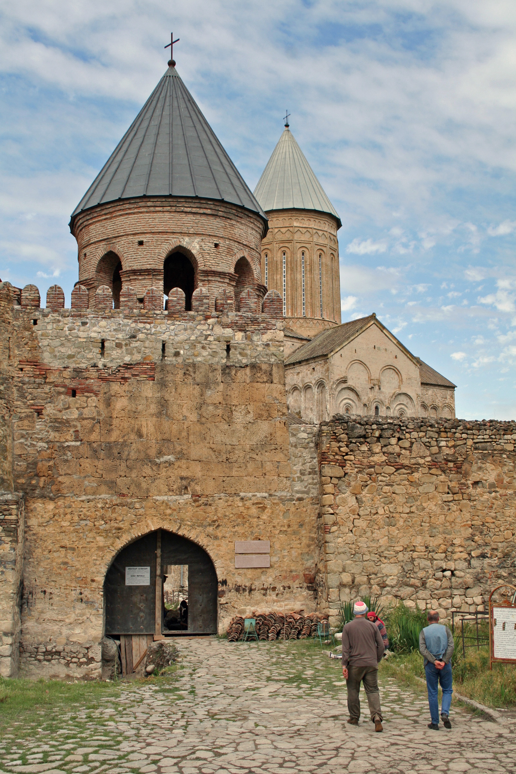 Alaverdi, St George's Cathedral. Entrance gate in the walls